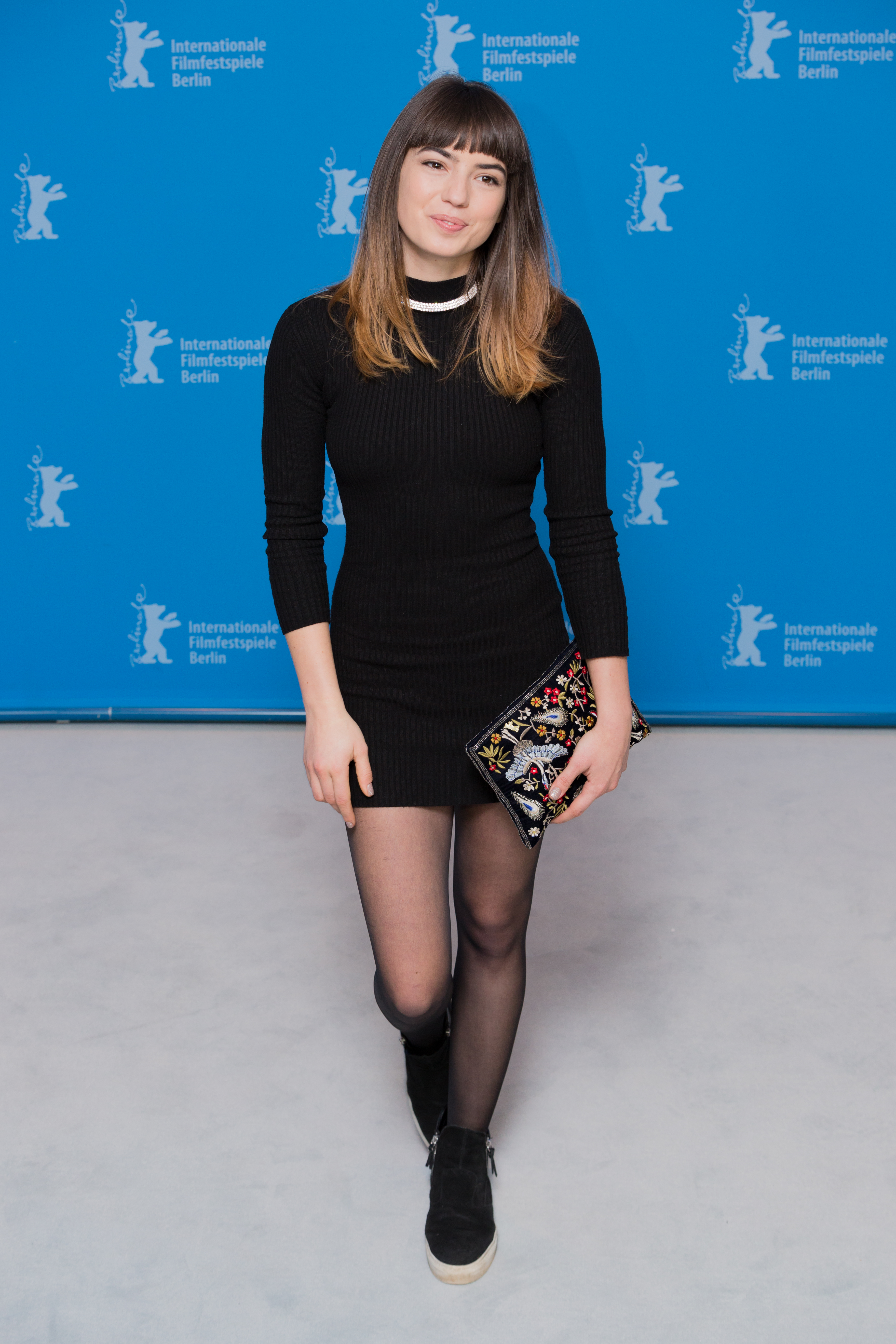 Anjela Nedyalkova presenting T2 Trainspotting at the Berlinale 2017